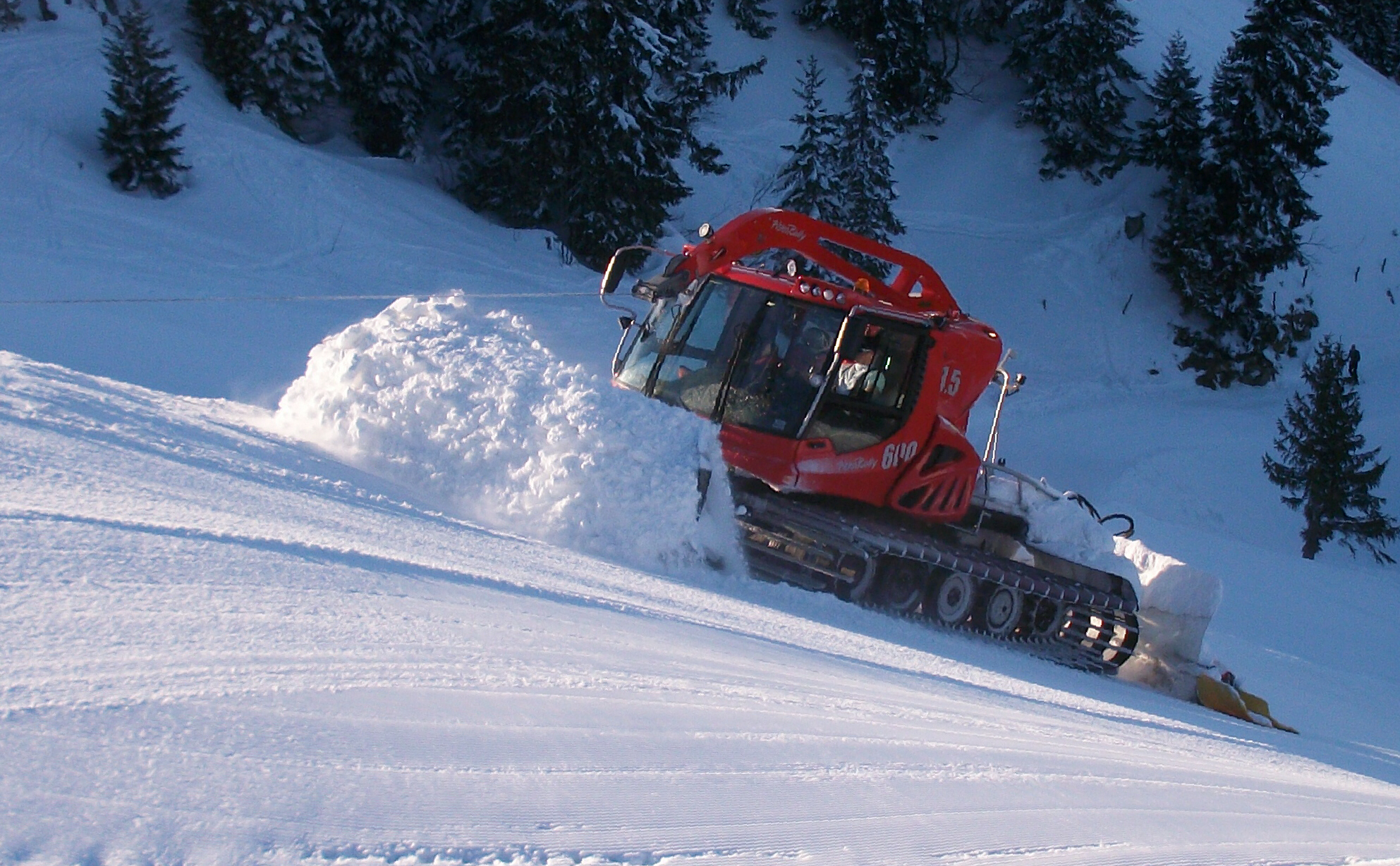 Snow groomer Pistenbully 600 W SCR 4.5 to winch active